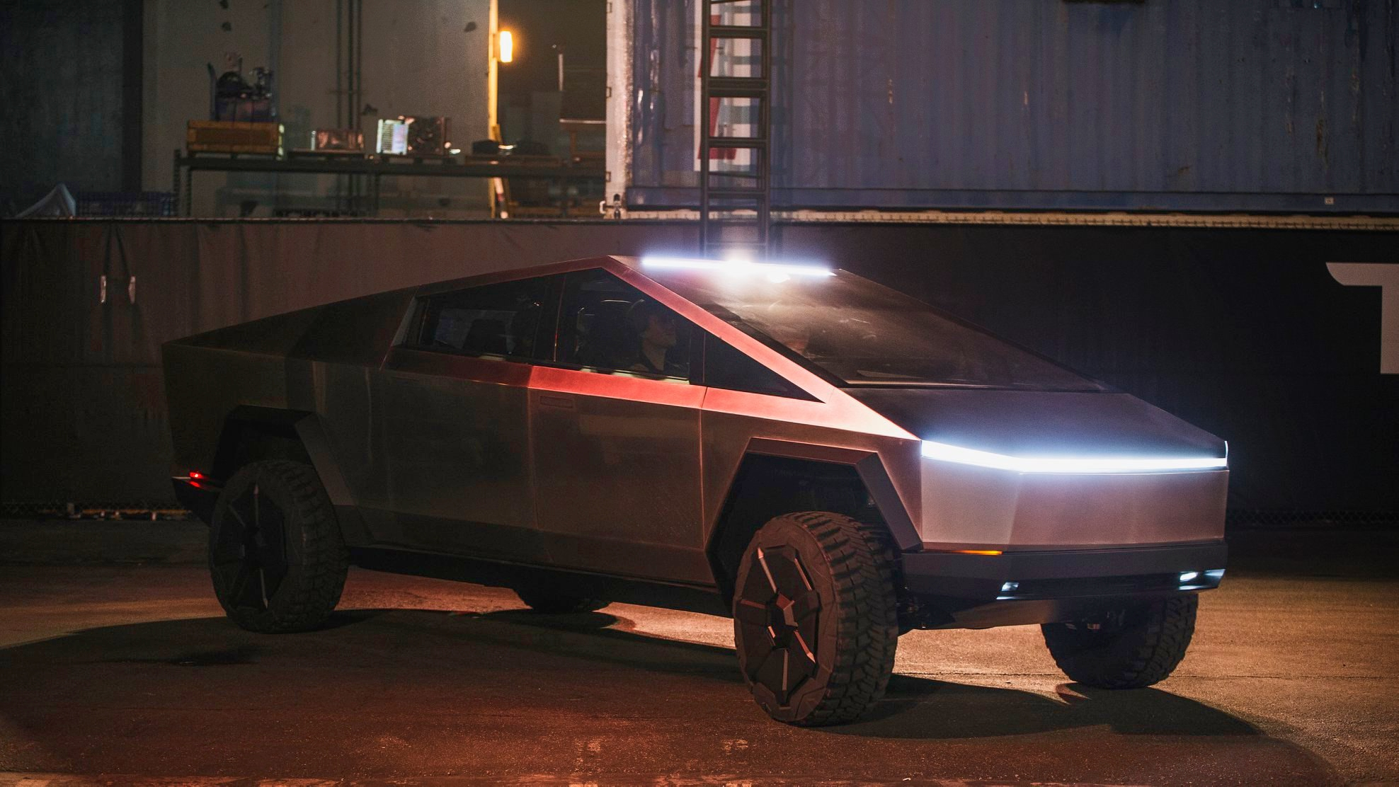 Photo of a Tesla Cybertruck electric pickup truck outside after the unveiling event.